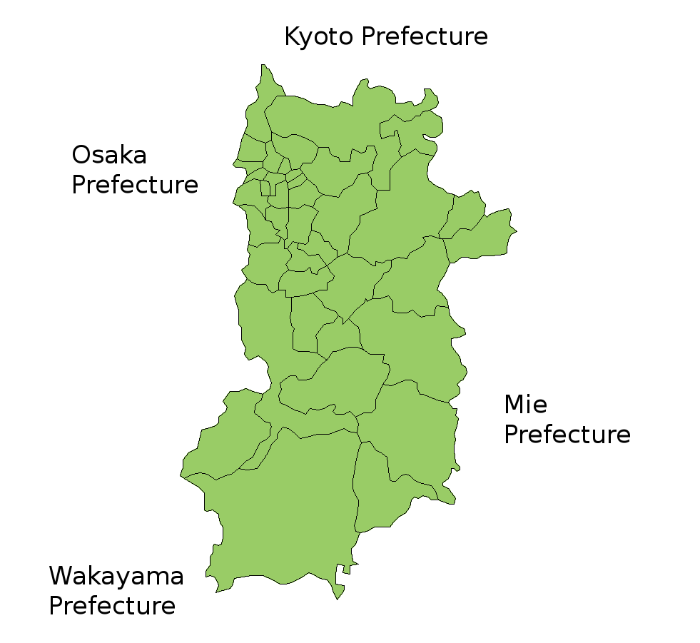 Map of Nara Prefecture, Japan. Thanks to Aoki Shigenobu and [1]. Colors from Image:TokyoMapCurrent.png by User:Fg2.